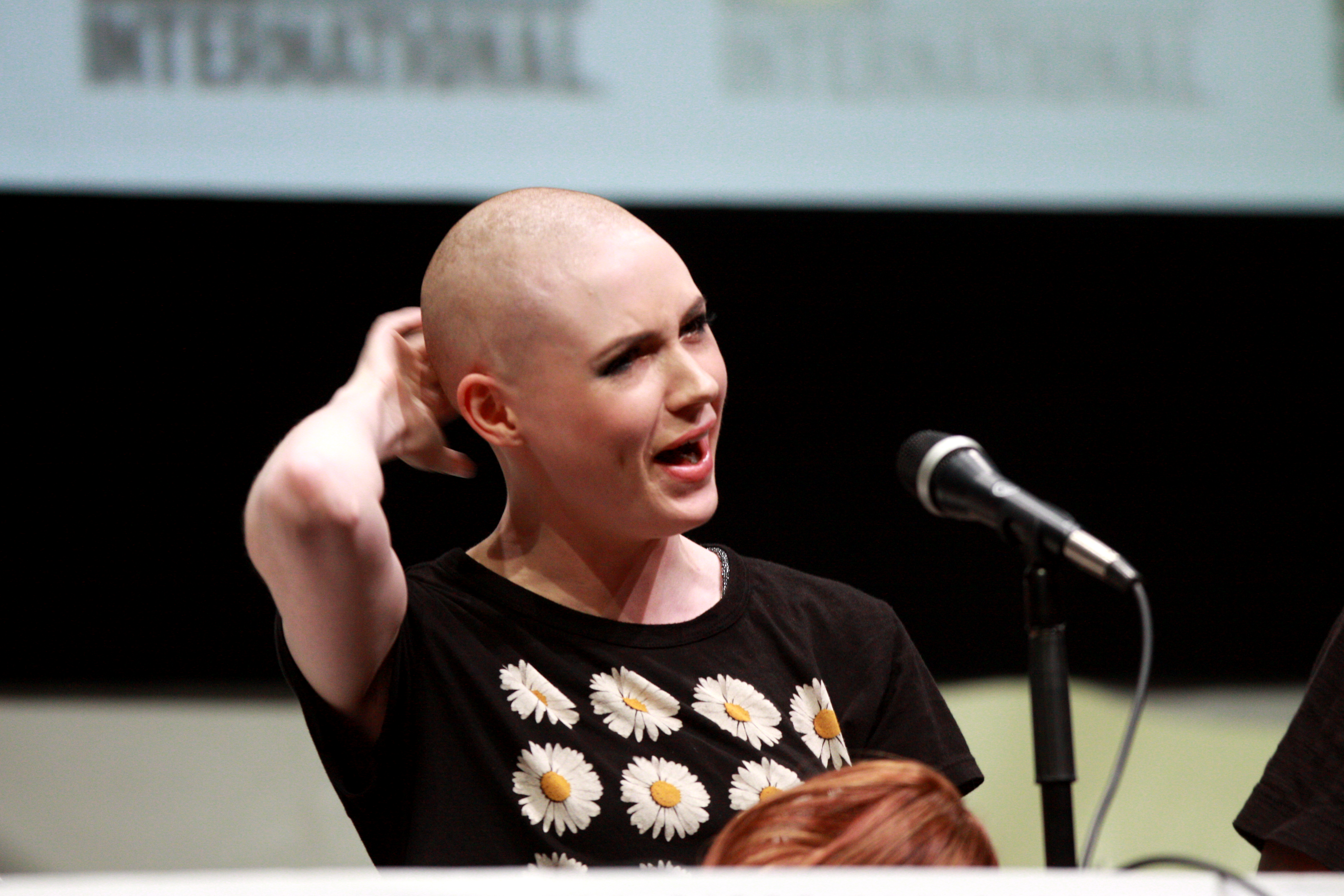 Karen Gillan, revealing her bald shaved head, speaking at the 2013 San Diego Comic Con International, for "Guardians of the Galaxy", at the San Diego Convention Center in San Diego, California.